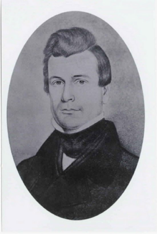 Moses Hoagland, member of the United States House of Representatives from Ohio.